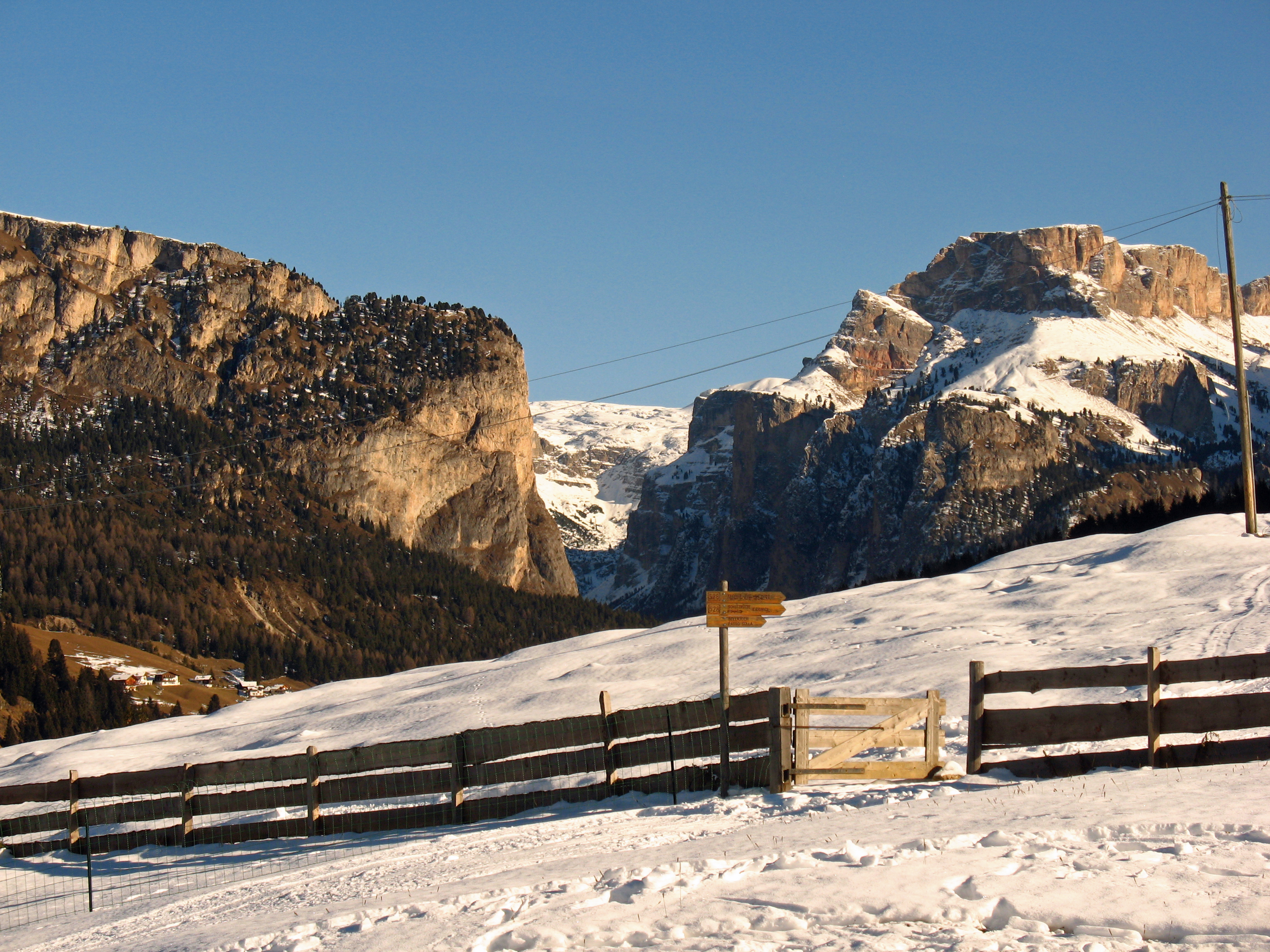 On Monte Pana in Val Gardena - South Tyrol. On the left the Stevia Mountain, in the middle the Langental on the right Mont the seura.